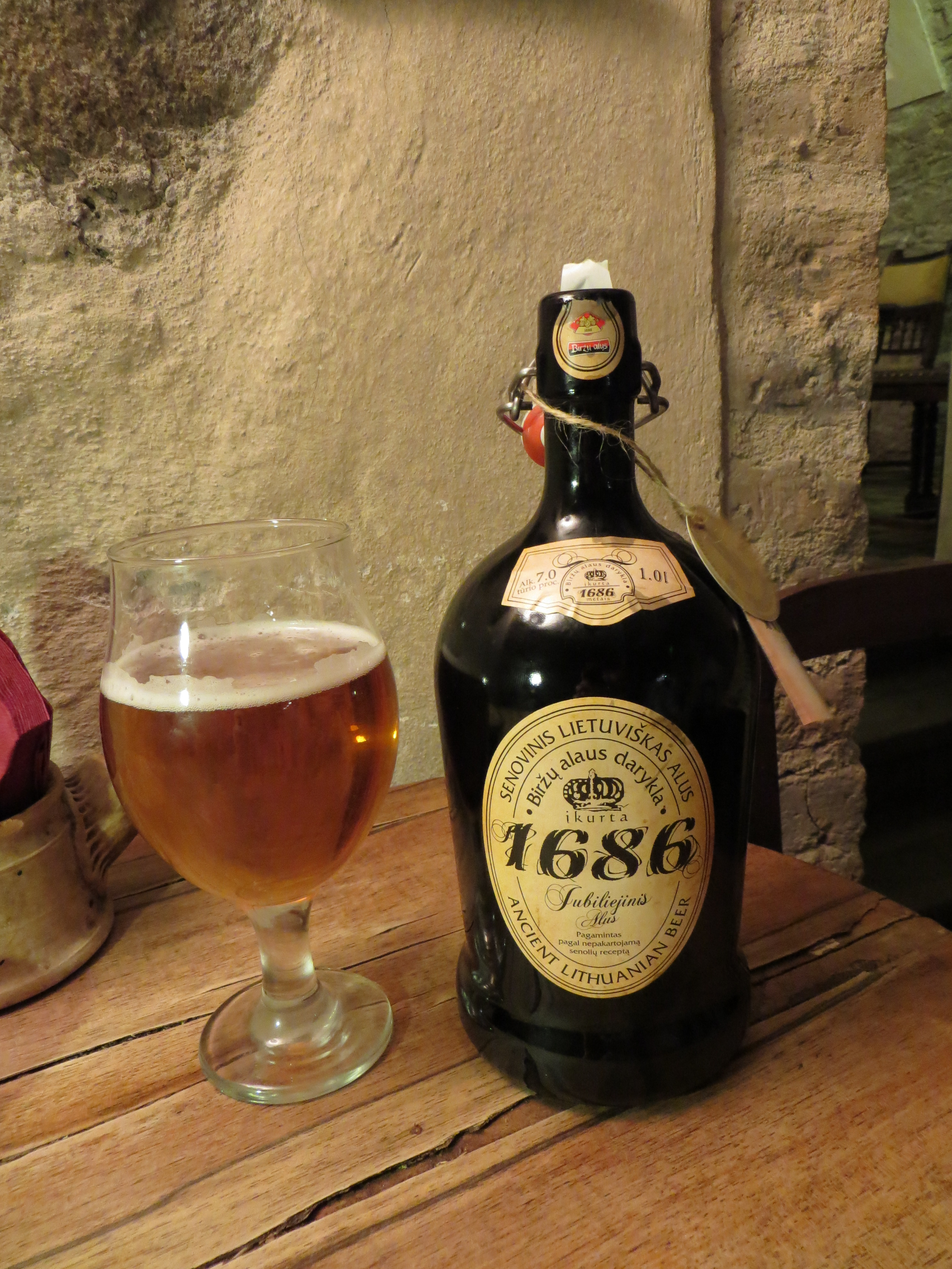 A 1-liter bottle of 1686 Jubiliejinis Alus from Biržų Alus in Biržai, Lithuania, at Bambalyne in Vilnius. Biržų 1686 Jubiliejinis Alus is a 7% abv "ancient lithuanian beer", according to the label. It poured a clear golden color with a white head. It had a grainy smell but with a strange estery side note. Mouthfeel was medium heavy with almost no carbonation. It tasted mildly of overripe fruit and finished half-dry with a mild bitterness.